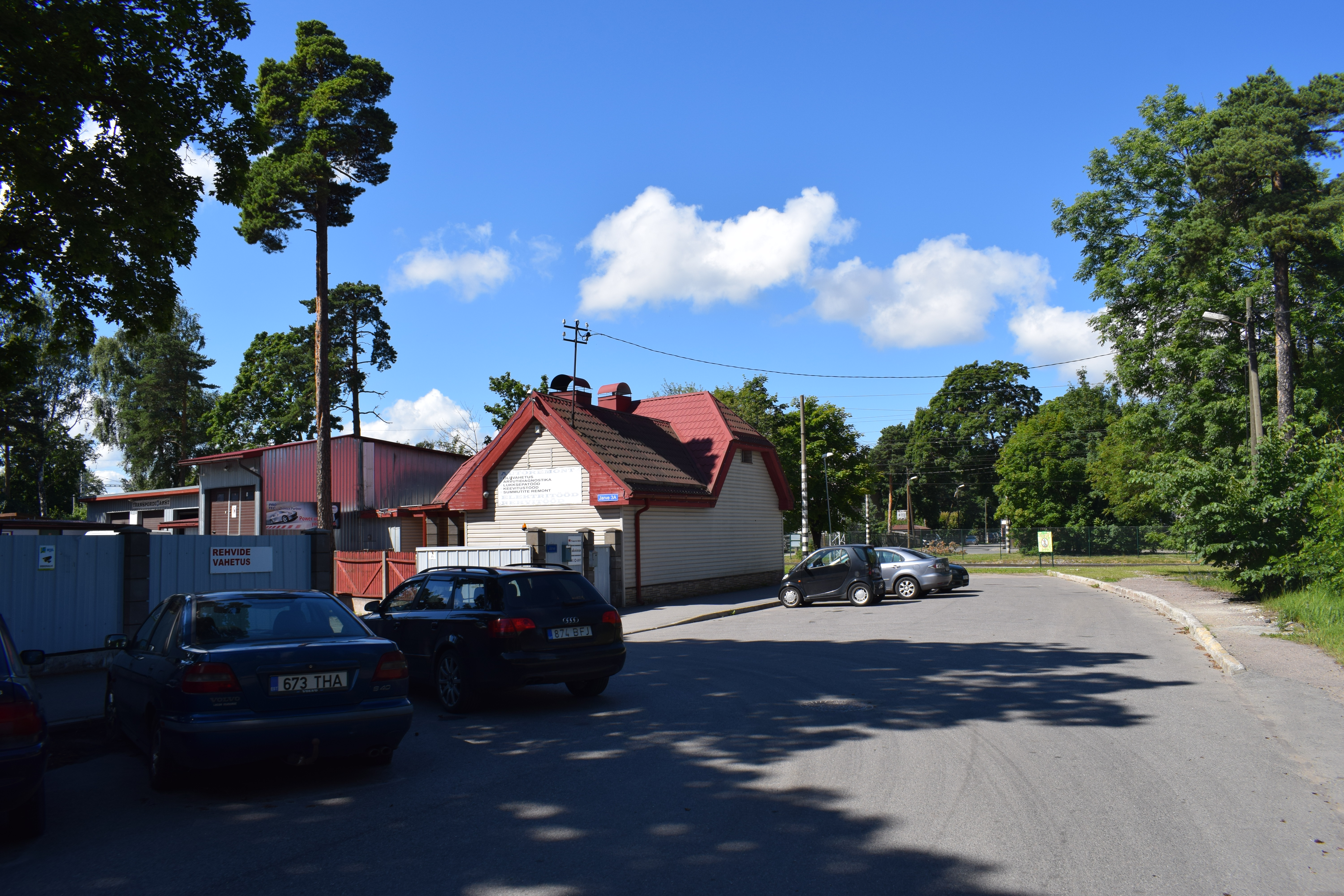 Järve 3a